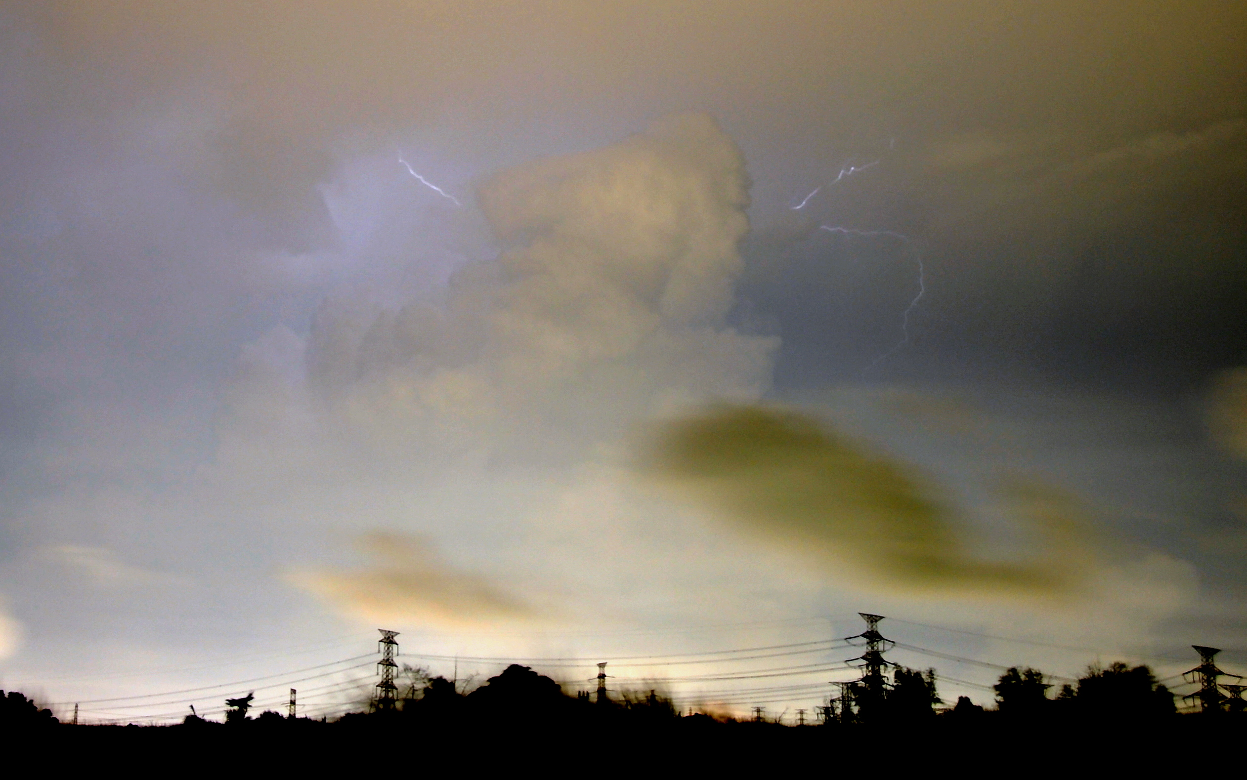 At nightfall, the sky atmospheric discharge appears lightning.